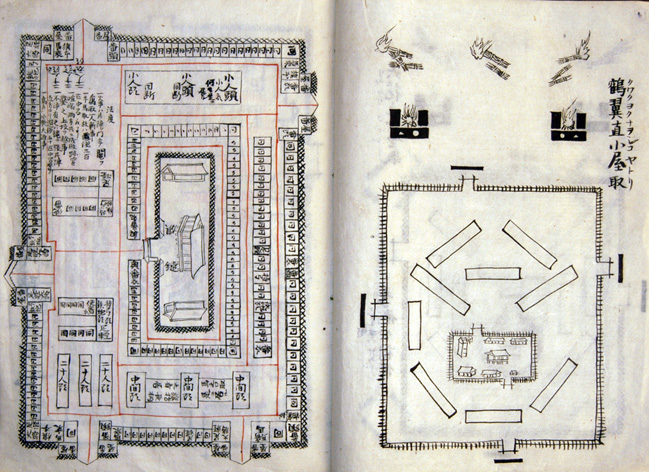 Sketch of military strategy made by Murakami Gensui (1781-1843) during his stay in Kurume (Northern Kyushu, Japan)